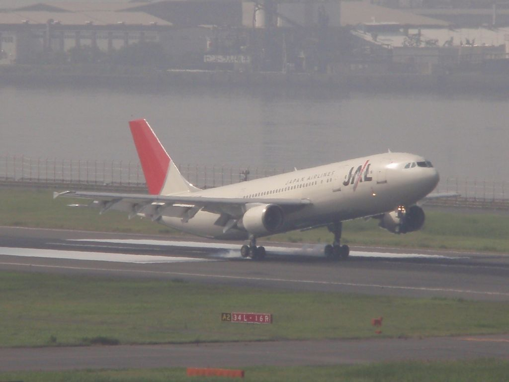 Japan Air Lines Airbus A300-600R is landing Tokyo Intl. Airport runway 34L.